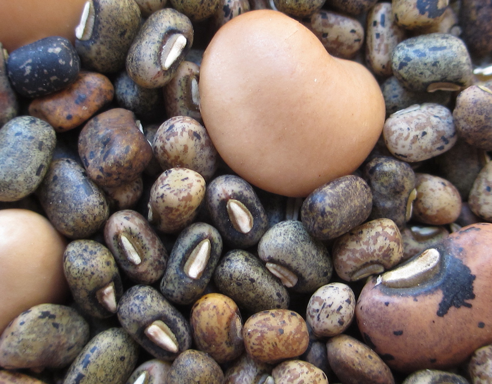 African farmers domesticated the cowpea (Vigna unguiculata) from its wild form, in a process of inconscious selection over many centuries. Domesticated cowpea has much larger seeds that have lost its dormancy of the wild progenitor.